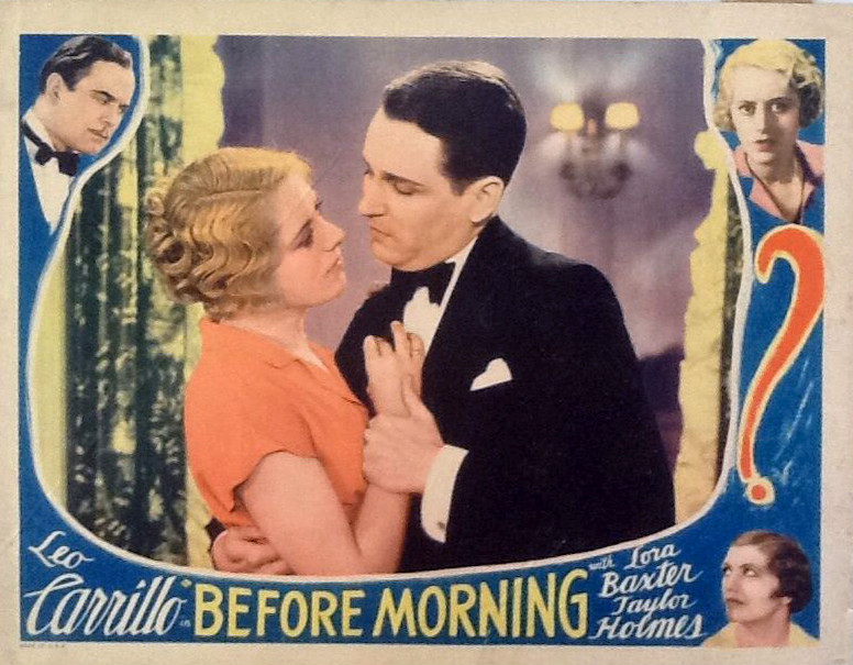 Lobby card for the 1933 film Before Morning with Lora Baxter and Leo Carrillo. This was the only film Baxter was in.